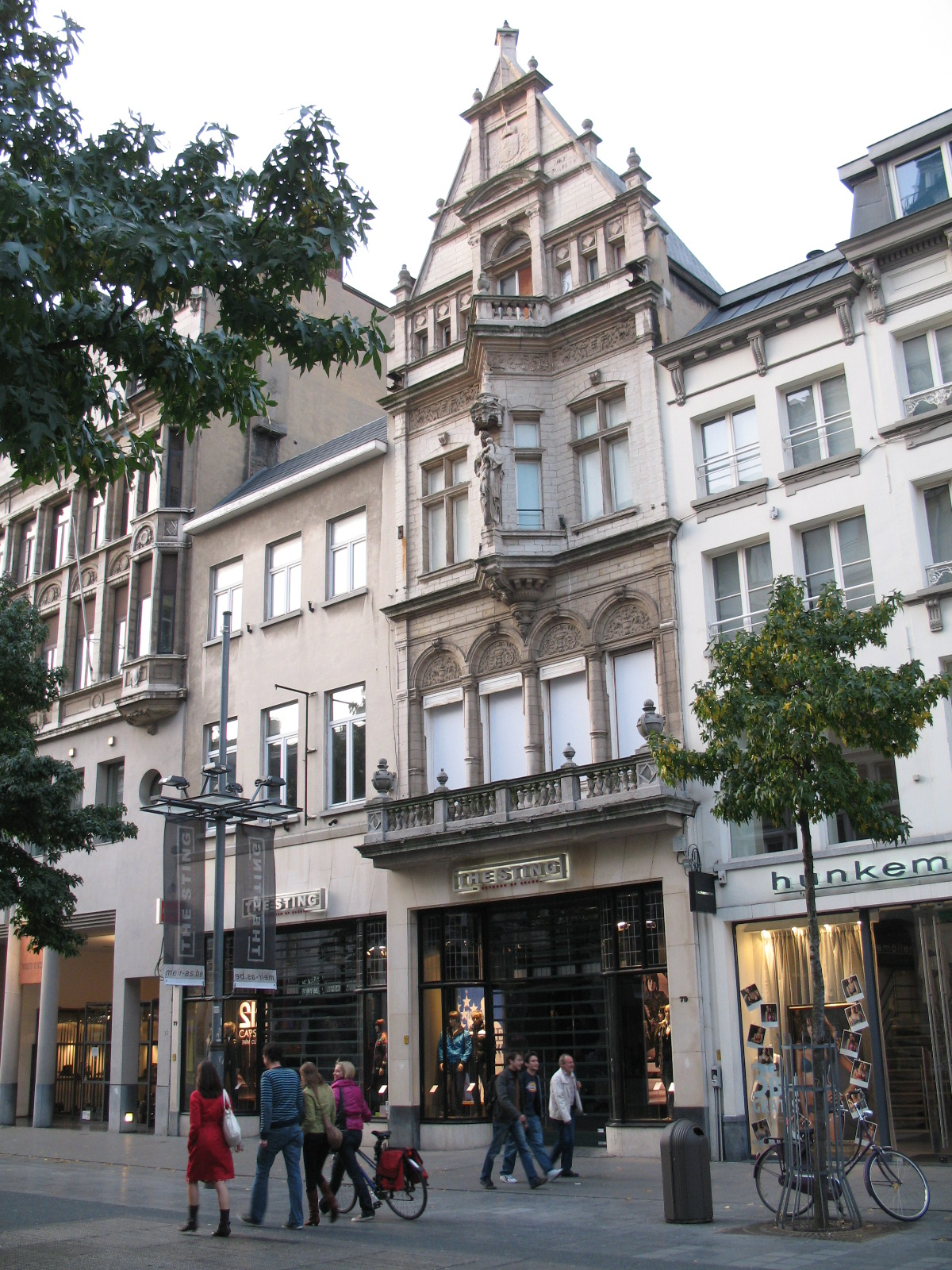 House 'Coat of arms of Spain' designed by J. Bilmeyer and Van Riel.